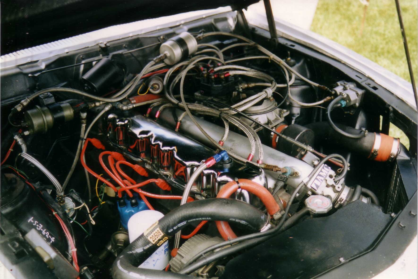 1980 American Motors (AMC) AMX Turbo Pace car built for the 1981 PPG IndyCar World Series - view of the engine bay. This car features AMC's venerable 258 cubic inch (4.2 L) straight six engine. It uses an exhaust driven turbocharger built by Turbo Systems and a Porsche fuel injection system to produce 450 HP. Photograph taken at the AMC 100th anniversary Rambler meet in Kenosha, Wisconsin.